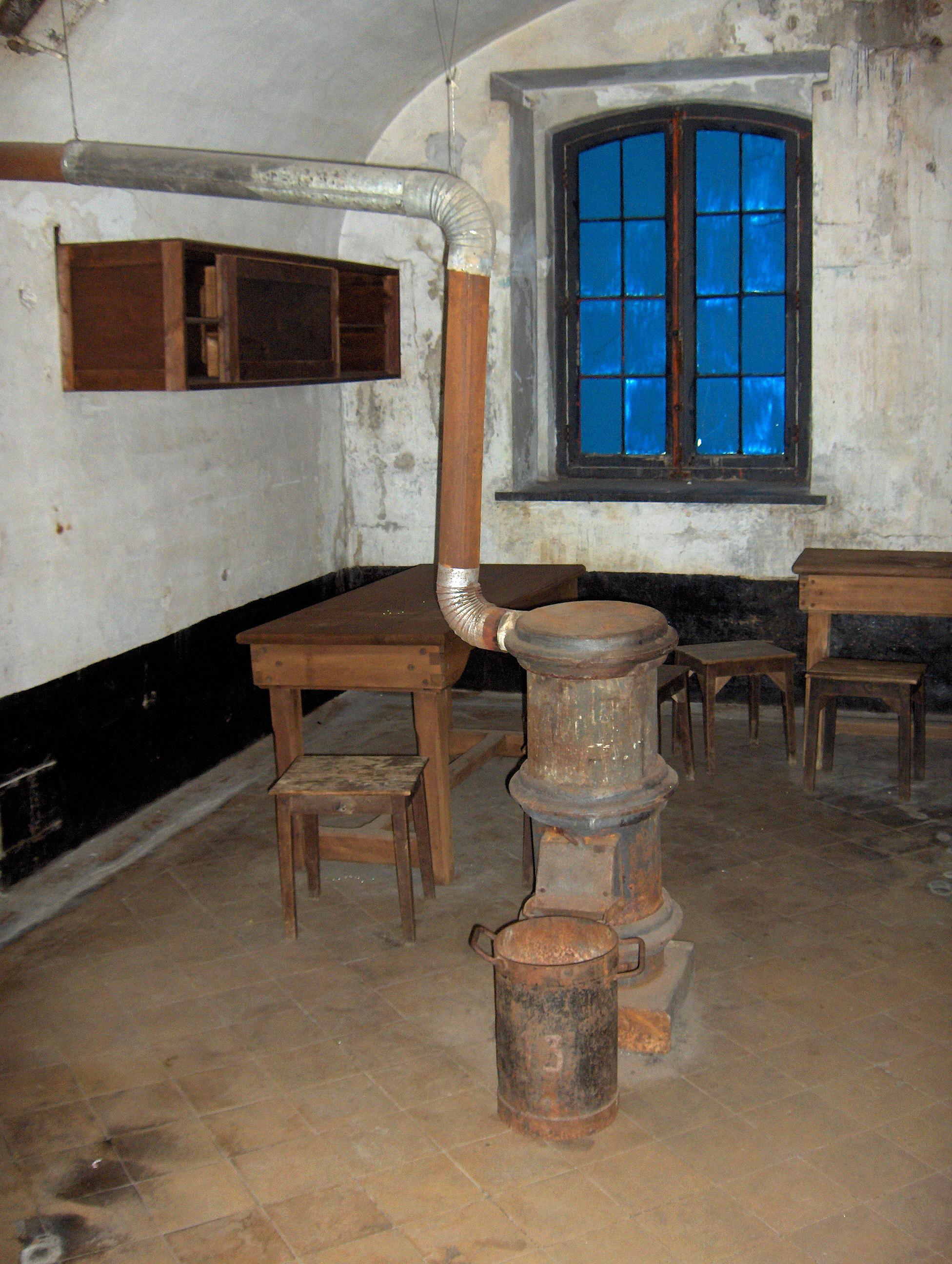 Round iron heating stove in the prisoner's room in the Fort van Breendonk, Belgium